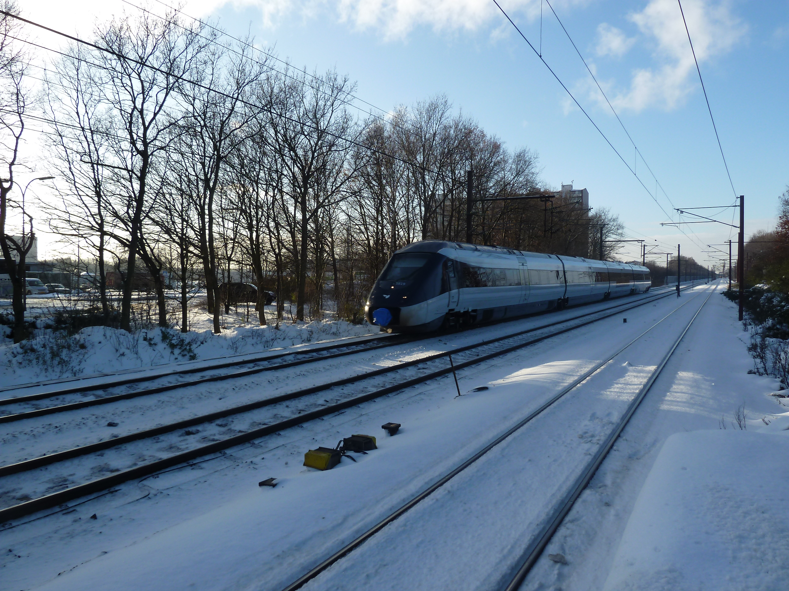 Diesel multiple unit IC4 19 at Rødovre Station in Copenhagen.